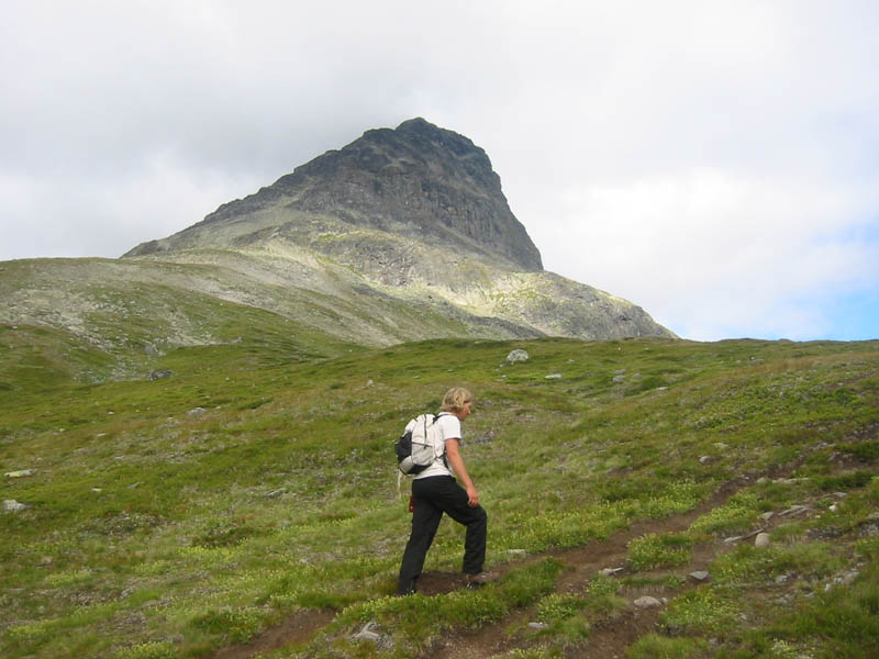 I shot the photo on August 8. 2006. The image shows the summit of Østre (Eastern) Torfinnstind.